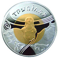 Coin of Ukraine